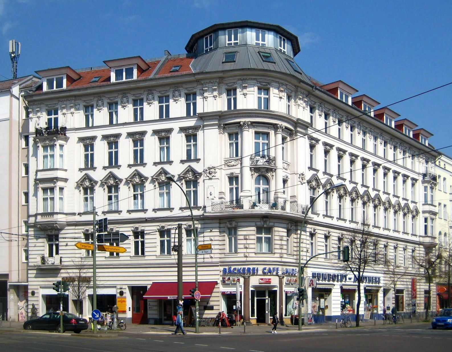 Residential and commercial building at Torstraße No. 231, corner of Chausseestraße No. 1 (left), in Berlin-Mitte. The building was constructed in 1890. It has been dedicated as a historic landmark.